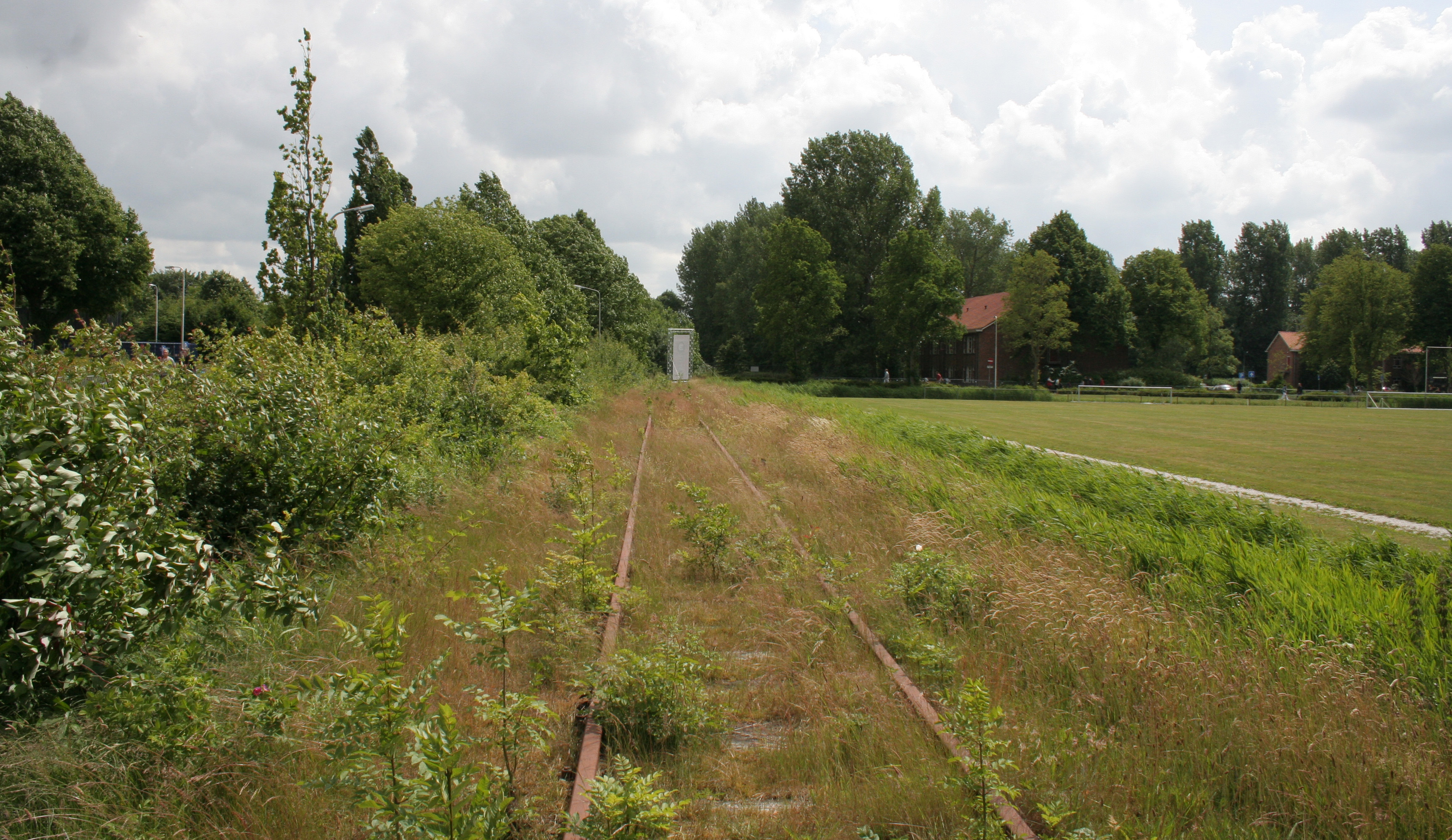 Former railway in Leeuwarden